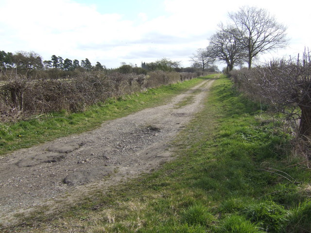 Brake Hill Drove Running dead-straight east to west linking the Watton, Brandon and Cockley Cley roads.